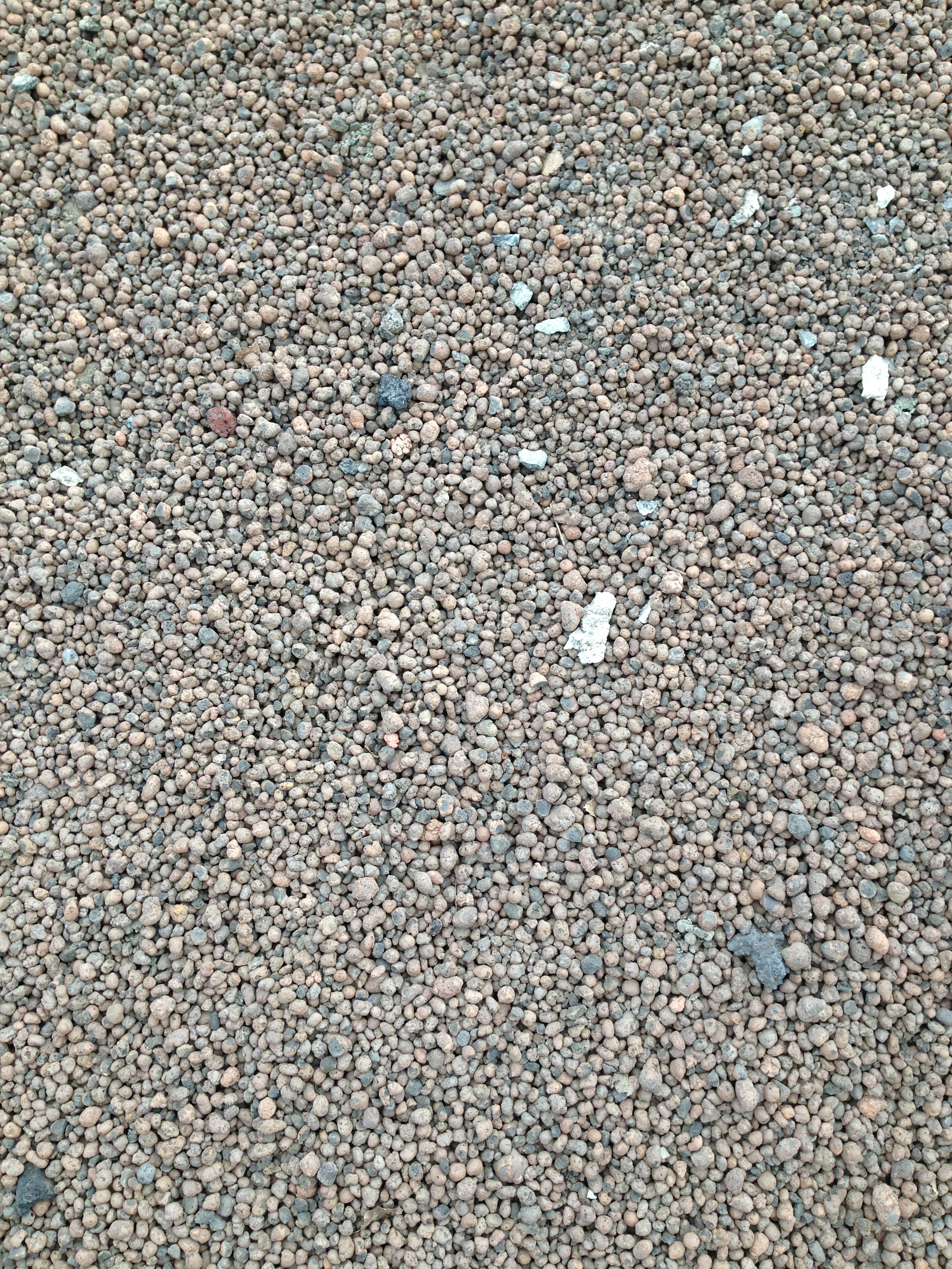 A pile of expanded clay pebbles on Hisingen, Göteborg, Sweden, 2013